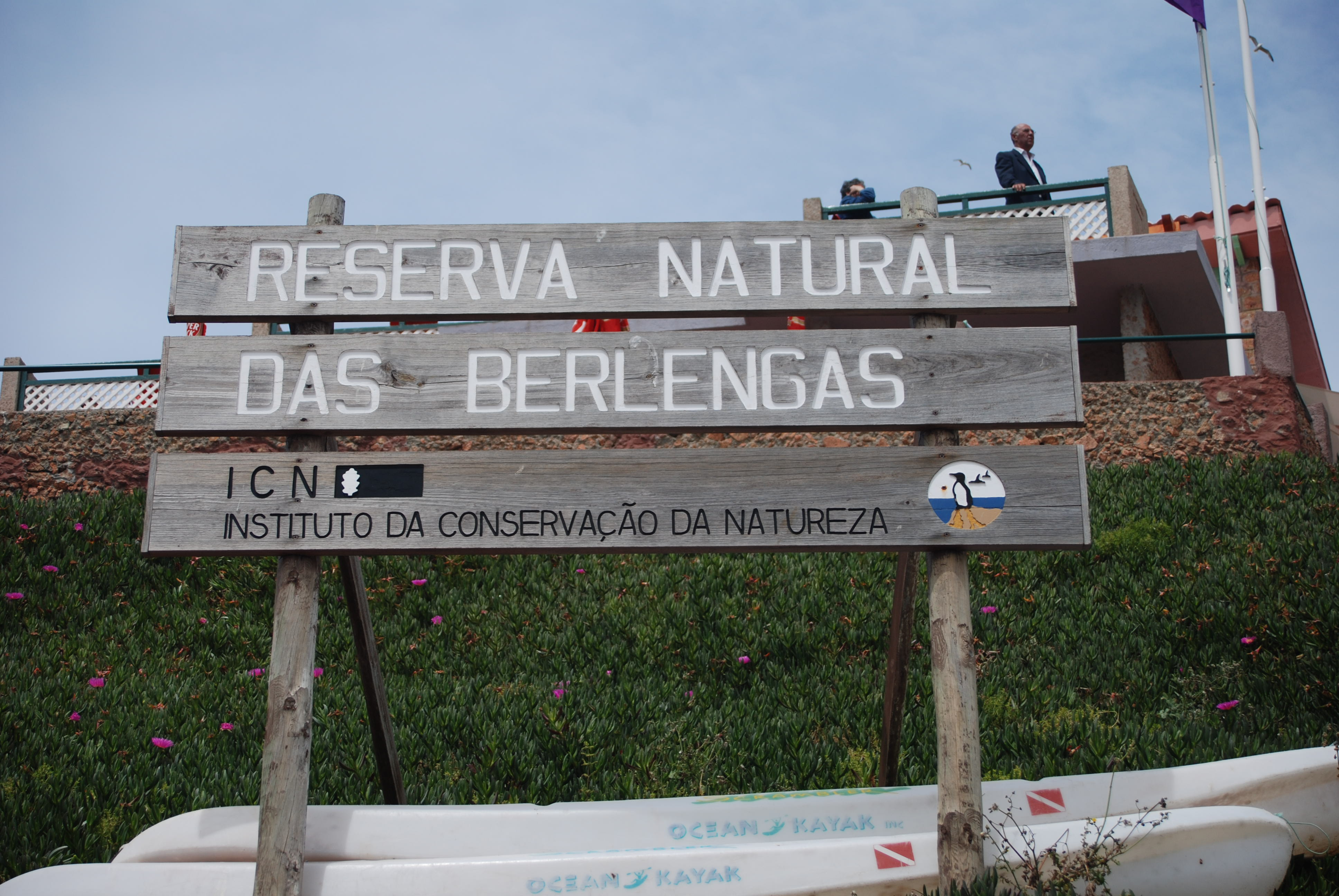 Reservas Natural des Berlengas - Portugal, welcome sign